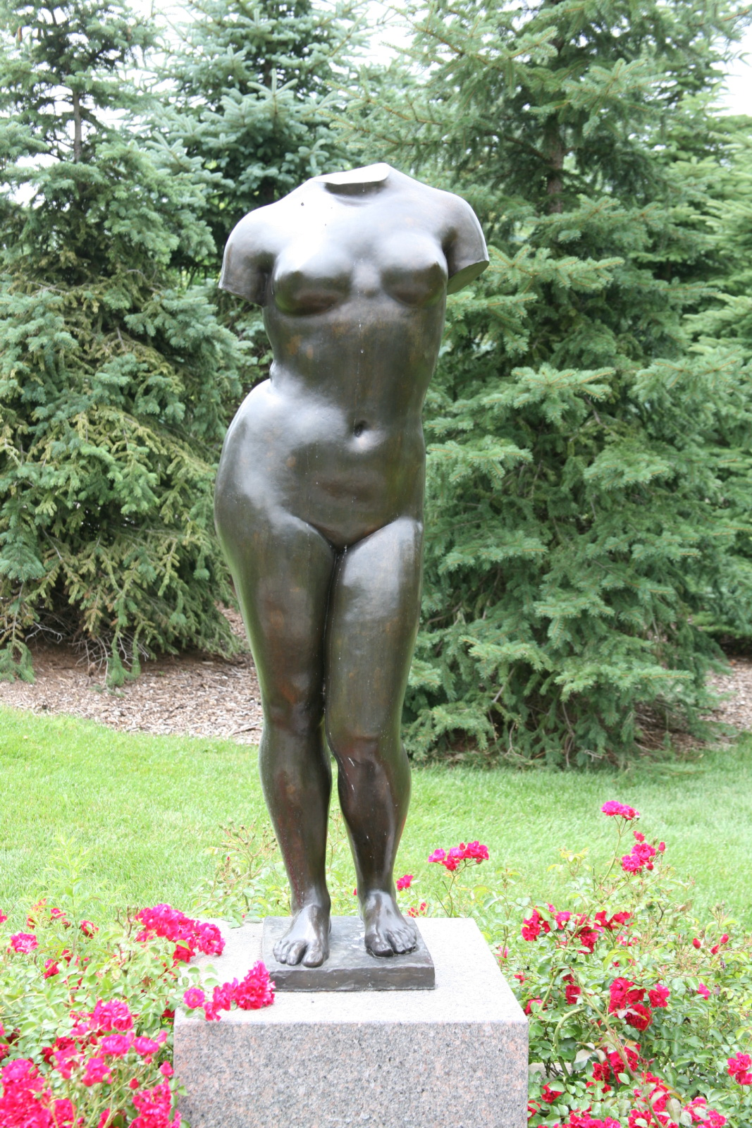 Aristide Maillol: Torso of Summer, 1911, Bronze.